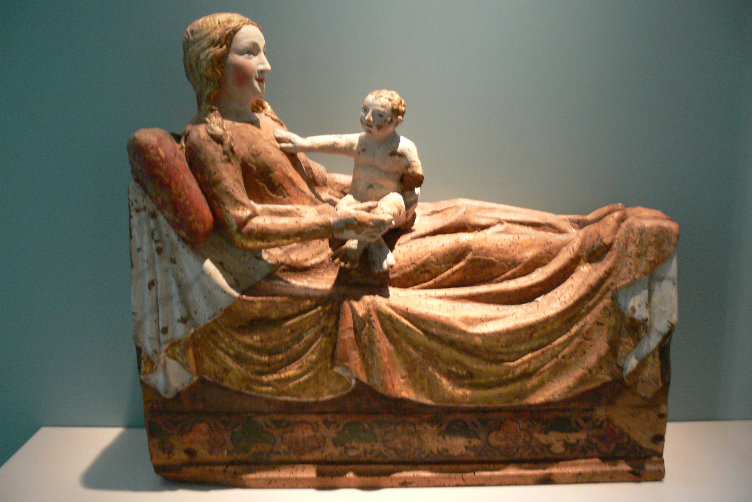 German National Museum ( Nuremberg / Germany ). Madonna and Child in bed ( 1340 ), from Cologne.